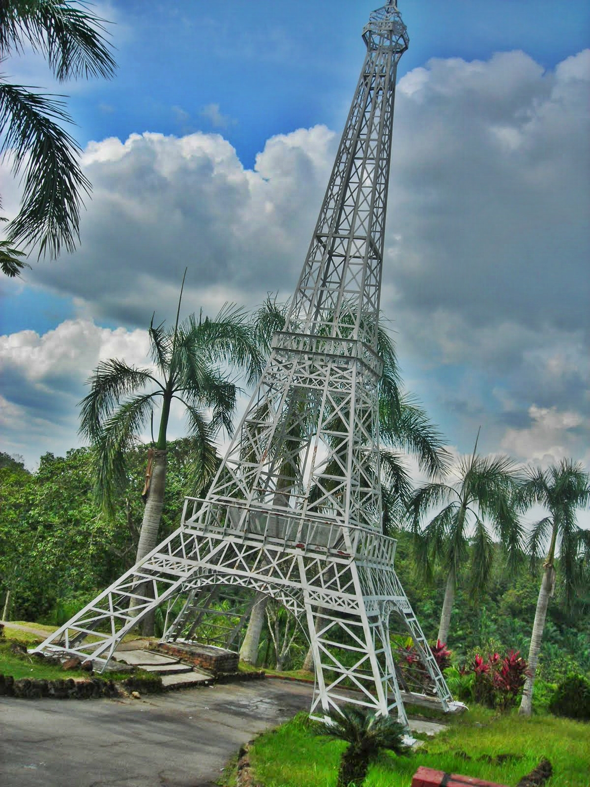 Paris Replica at Tropical Village